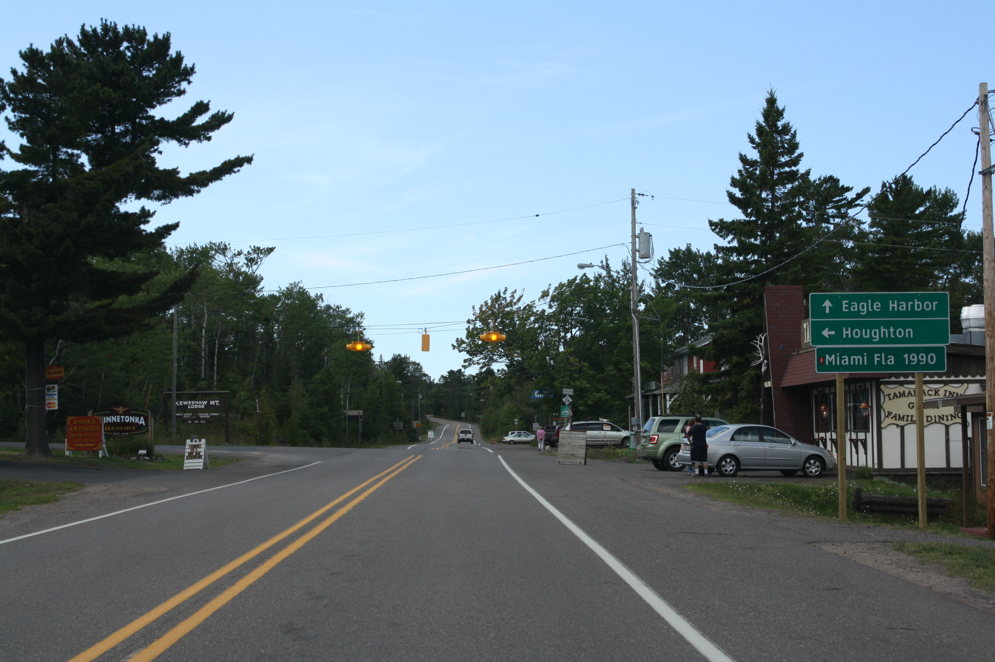 Looking at the northern terminus for M-26 (Michigan highway) on U.S. Route 41 in Copper Harbor, Michigan.